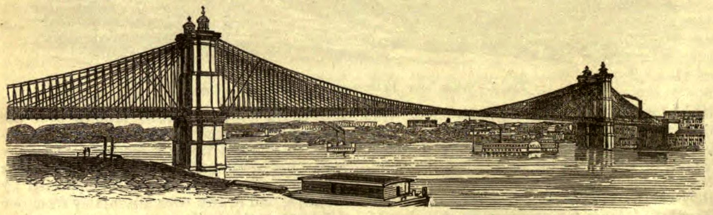 Woodcut/drawing of Roebling's suspension bridge over the Ohio at Cincinnati.